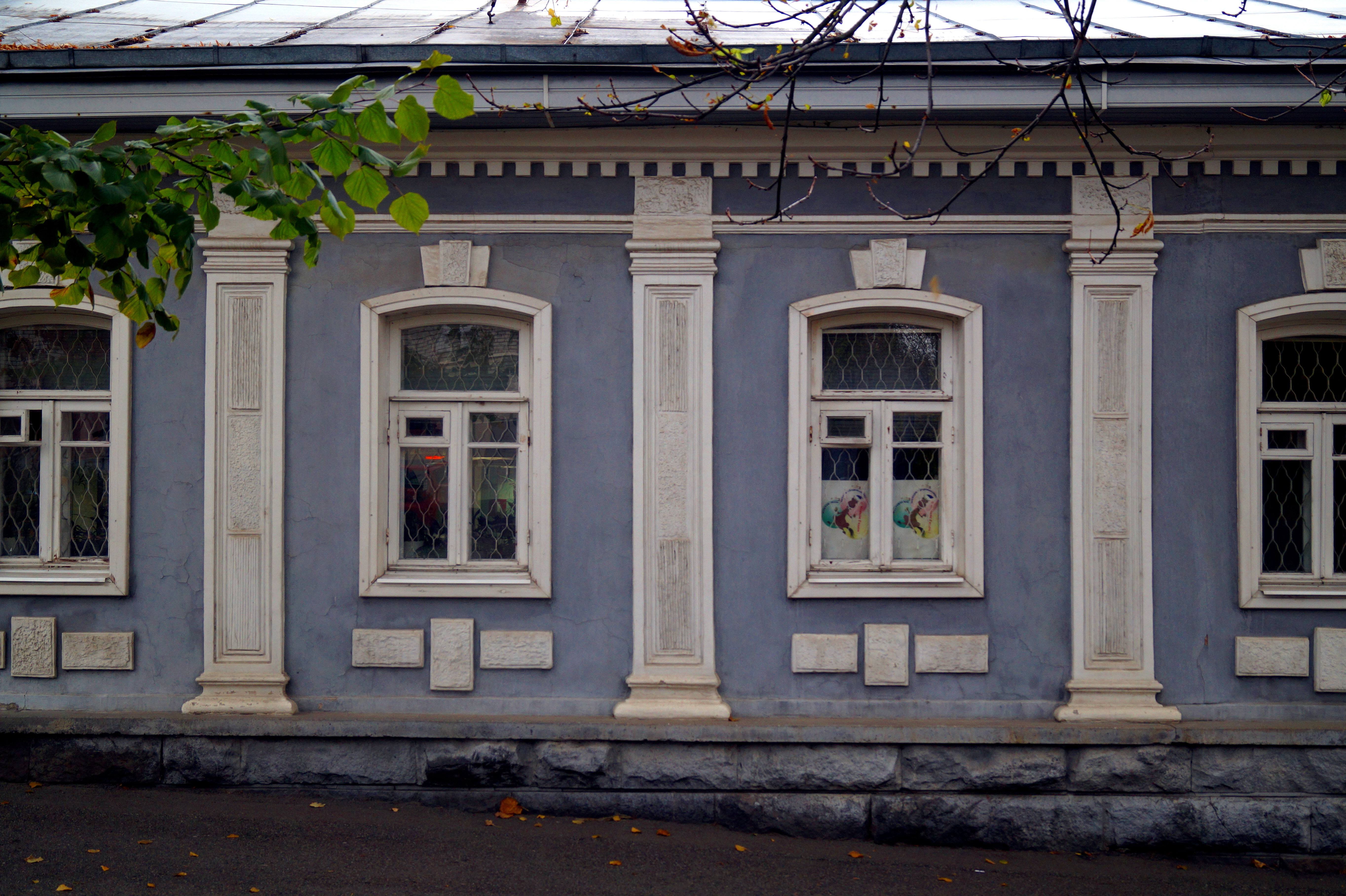 House of the Lopatin family (2nd half of the 19th century). Address: 113 Komsomolskaya St., Stavropol, Stavropol Krai, Russia